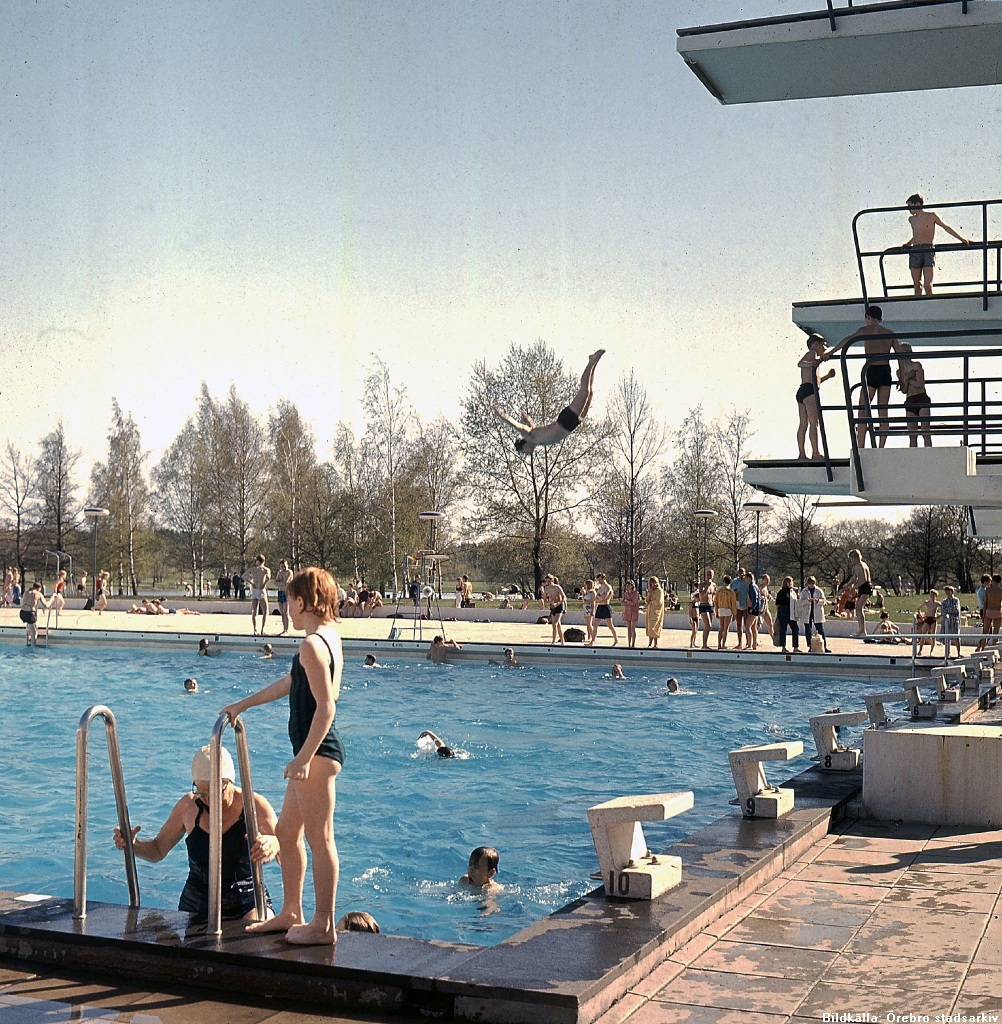 The Gustavsvik outdoor bath, Örebro, Sweden